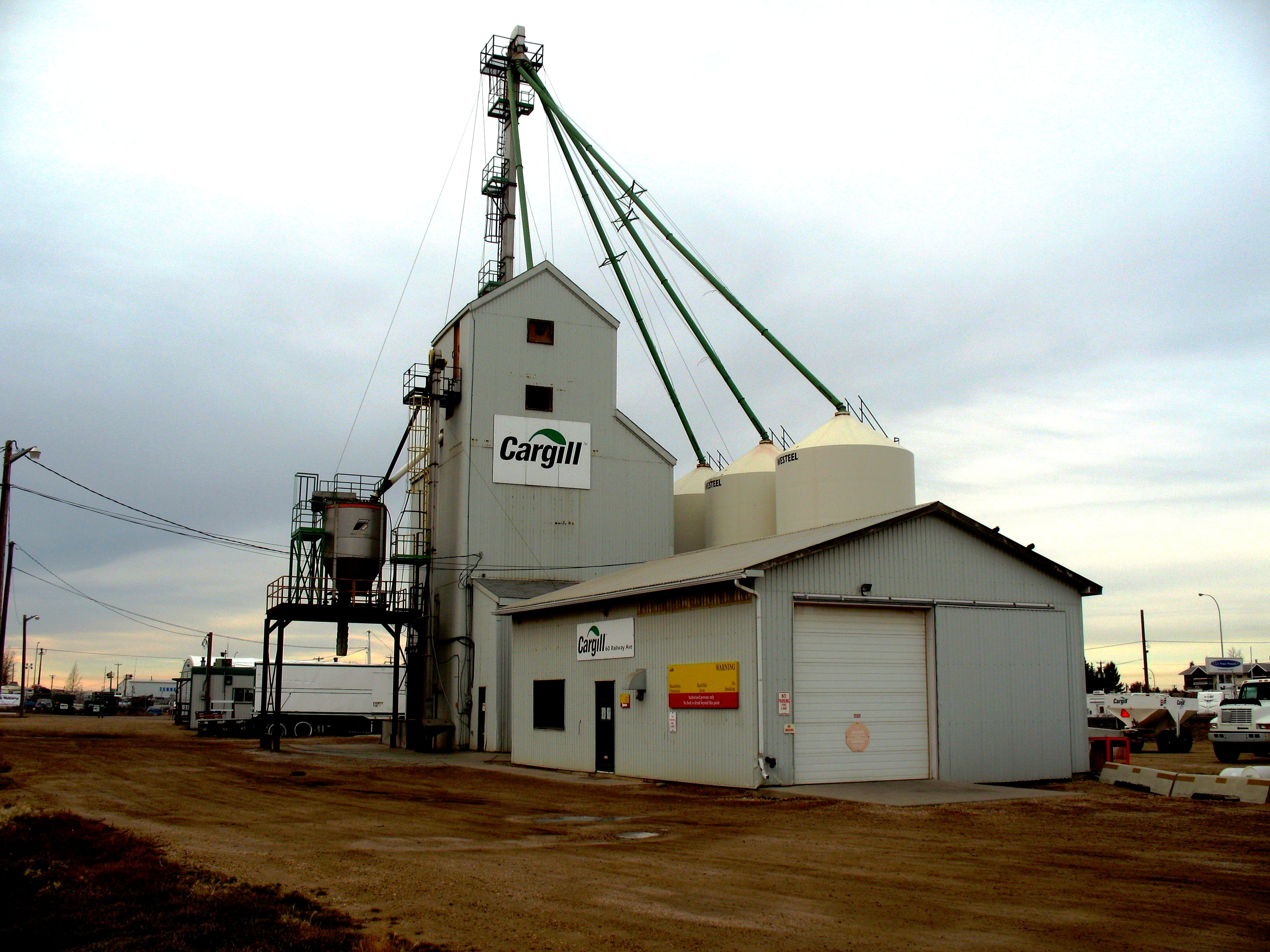 Grain elevator in Spruce Grove, Alberta, Canada.